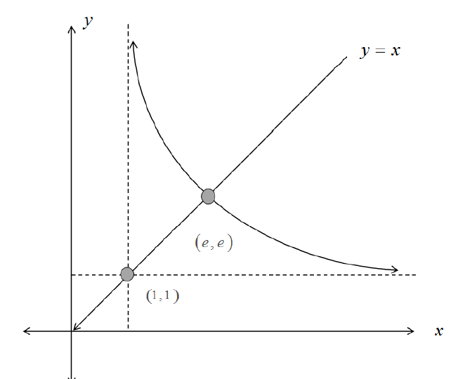 plot of the function x y = y x {\displaystyle x^{y}=y^{x